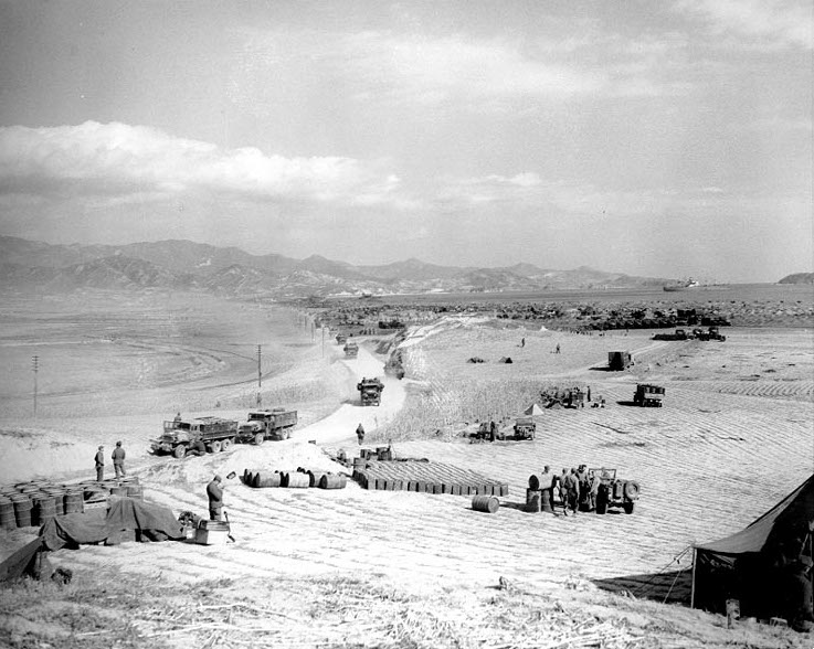 Photo #: NH 97057 Iwon Landing, October-November 1950 Trucks move inland from the beaches, during the landing of the Seventh Infantry Division at Iwon, North Korea, circa late October 1950. Note fuel dump in the foreground. Official U.S. Navy Photograph, from the collections of the Naval Historical Center.